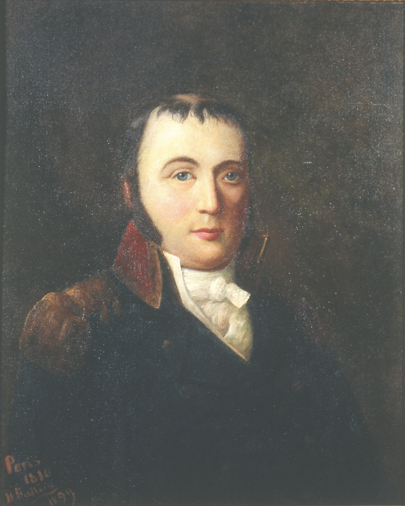 Andreas Michael Heiberg, member of the Constitution essembly of Norway in 1814. Painting from 1899; copy after a miniature painting in Paris 1810.